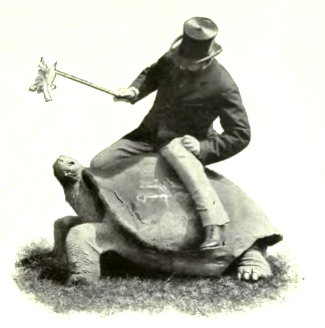 Walter Rothschild on Rotumah, a Galapagos tortoise that he found living in the grounds of an Australian lunatic asylum